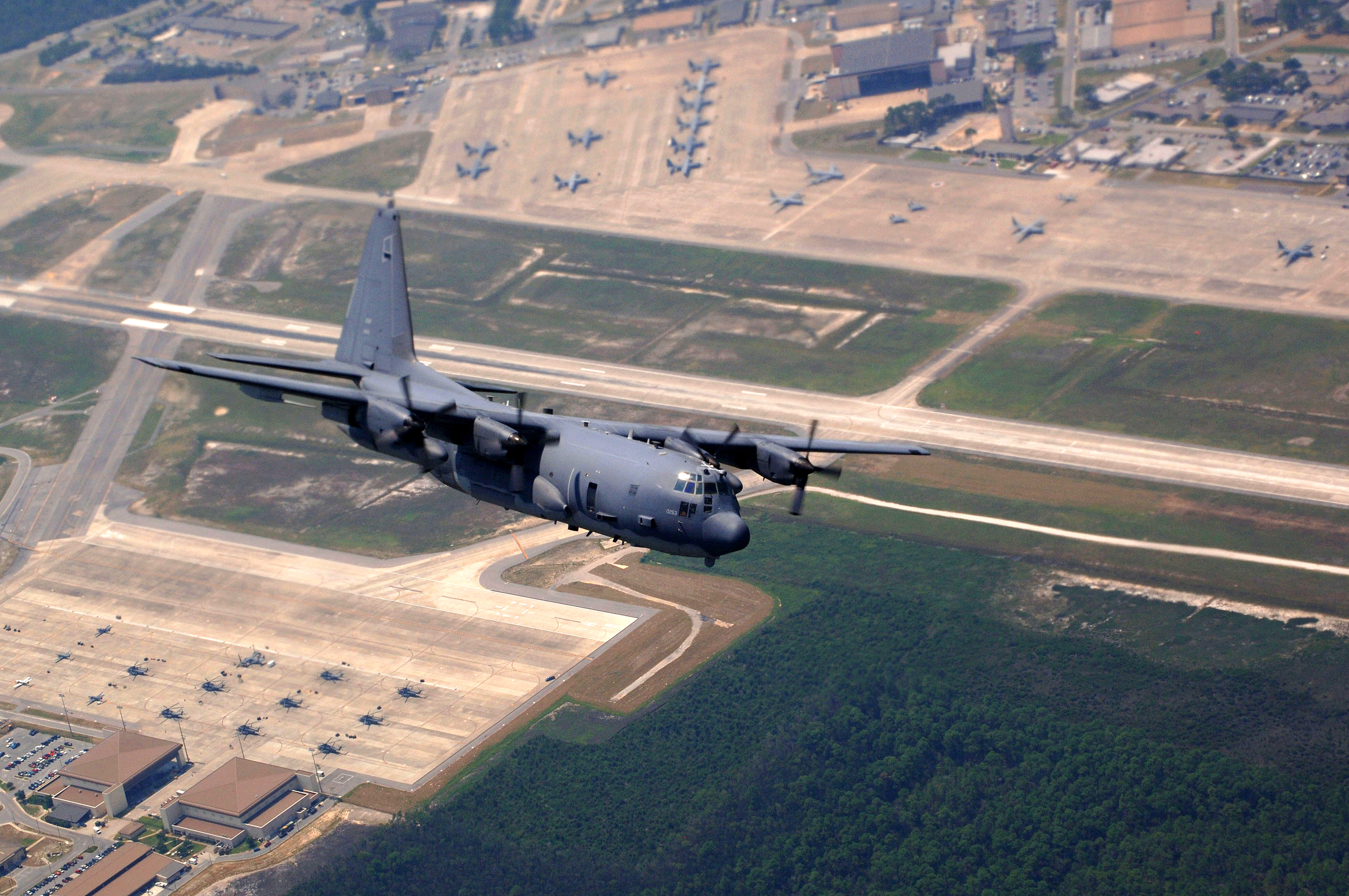 An AC-130U Spooky gunship from the 4th Special Operations Squadron flies over Hurlburt Field, Fla., on Aug. 24, 2007, during training.